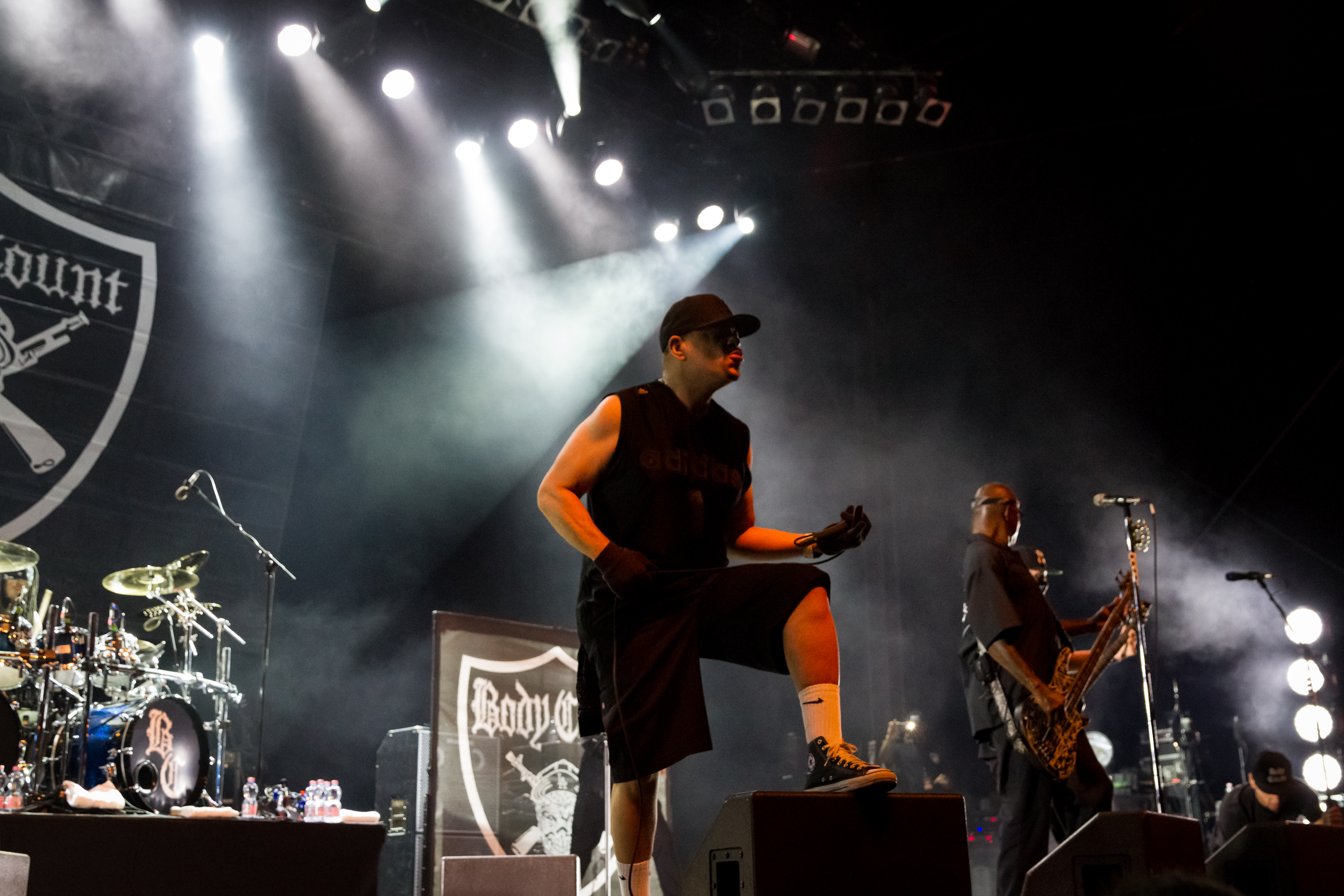 Body Count feat. Ice-T - Rock am Ring 2015